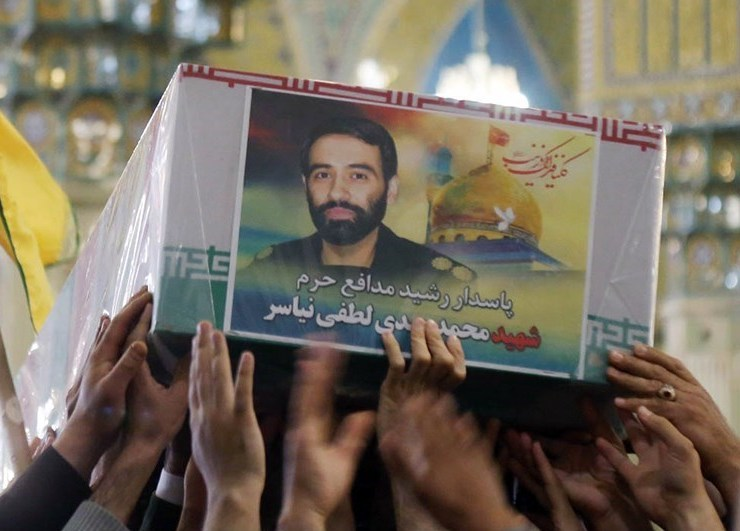 funeral of Iranians killed at T-4 base in Qom